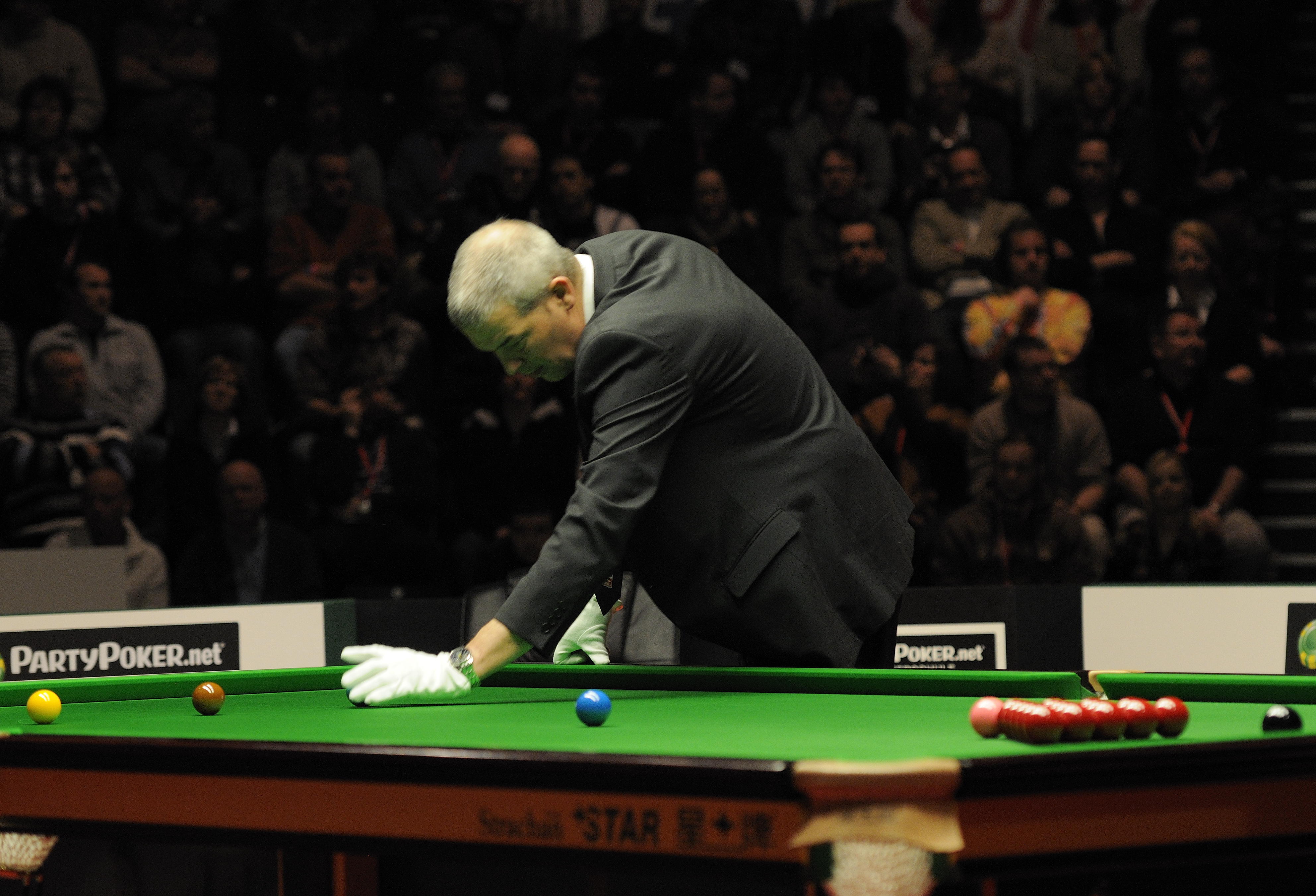 Picture taken in Berlin during the Snooker German Masters in 2011.